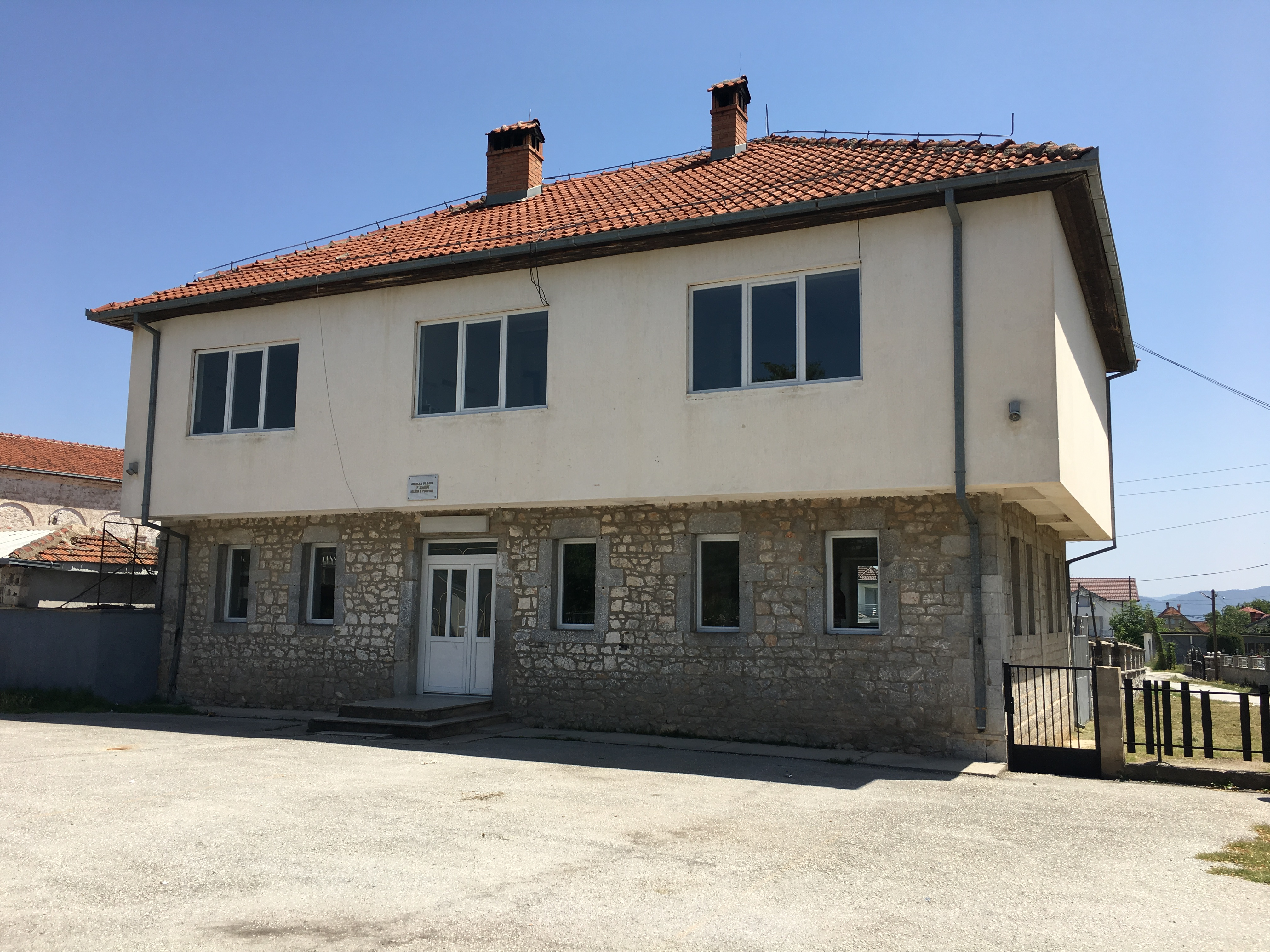 Edinstvo Primary School in the village of Dolna Belica